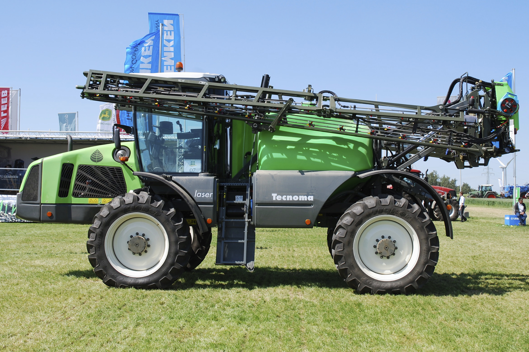 Self-propelled field sprayer Tecnoma Laser (probably model 3240); DLG field days 2010, Gut Bockerode, Springe-Mittelrode, Lower Saxony, Germany.